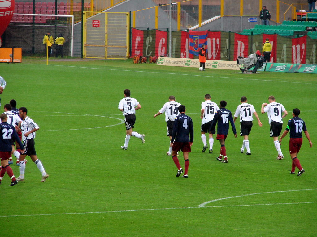 During the match between Legia Warszawa and Pogoń Szczecin. Photo taken from the stands.